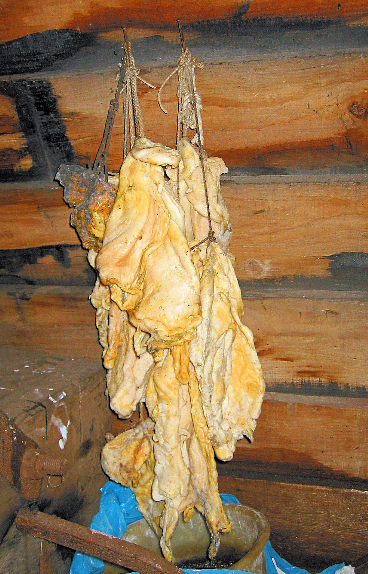 Pork rinds from which lard is rendered. (Reuzelvellen)